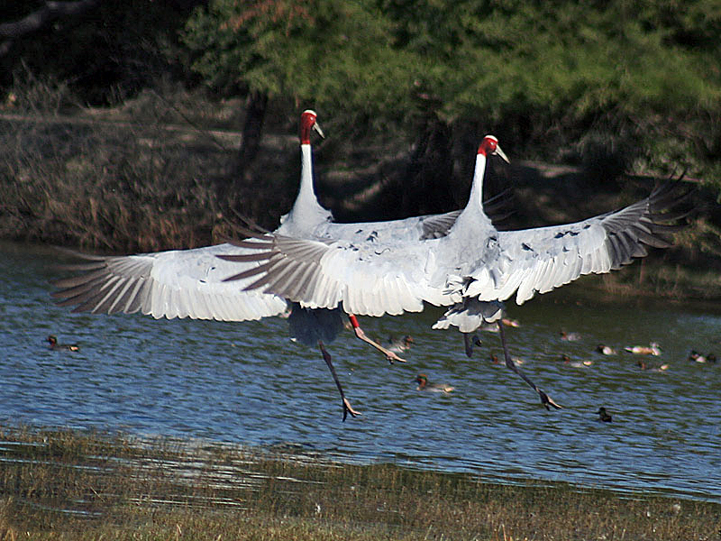 Sarus Crane Grus antigone at Bharatpur, Rajasthan, India.